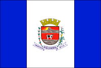 Flags of the city of Aguanil, Minas Gerais, Brazil.